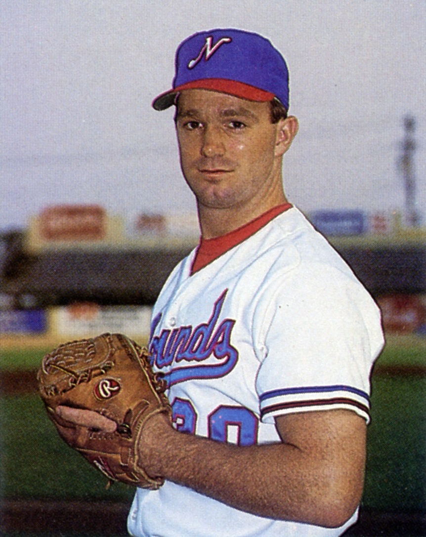 Pitcher Pat Pacillo of the 1987 Nashville Sounds Minor League Baseball team of the American Association